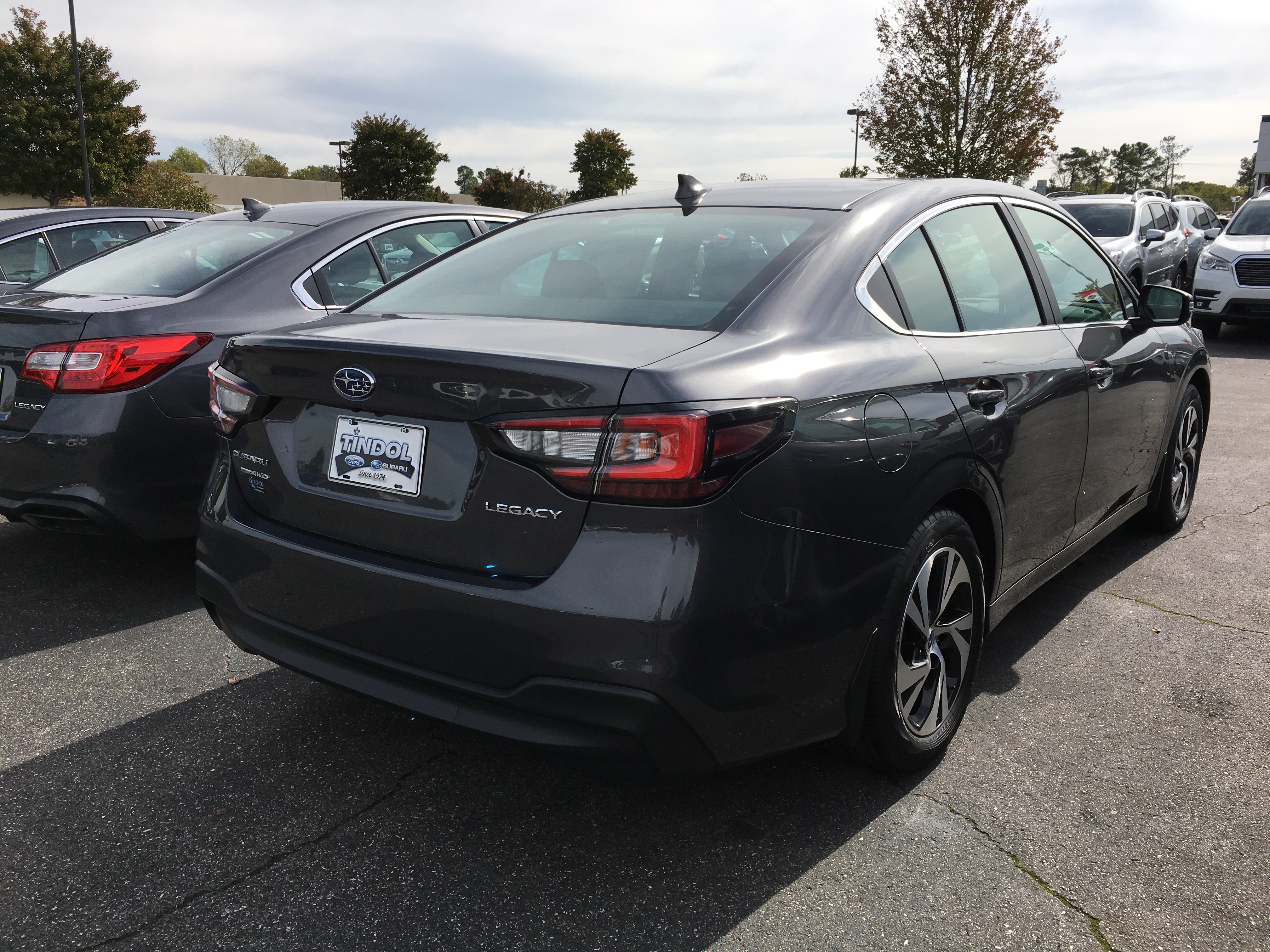 the rear view of a 2020 Subaru Legacy